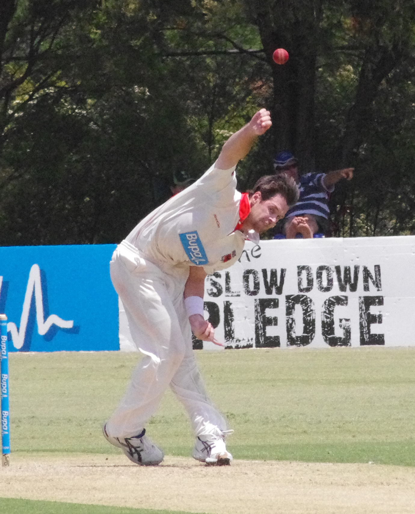 Australian cricketer Daniel Christian